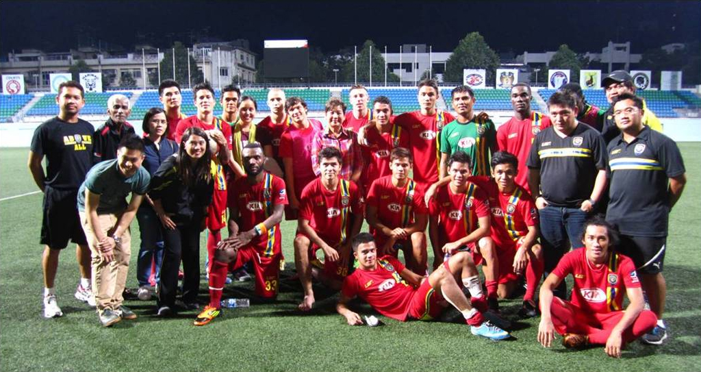 Global F.C. players competing at the 2013 Singapore Cup along with officials.